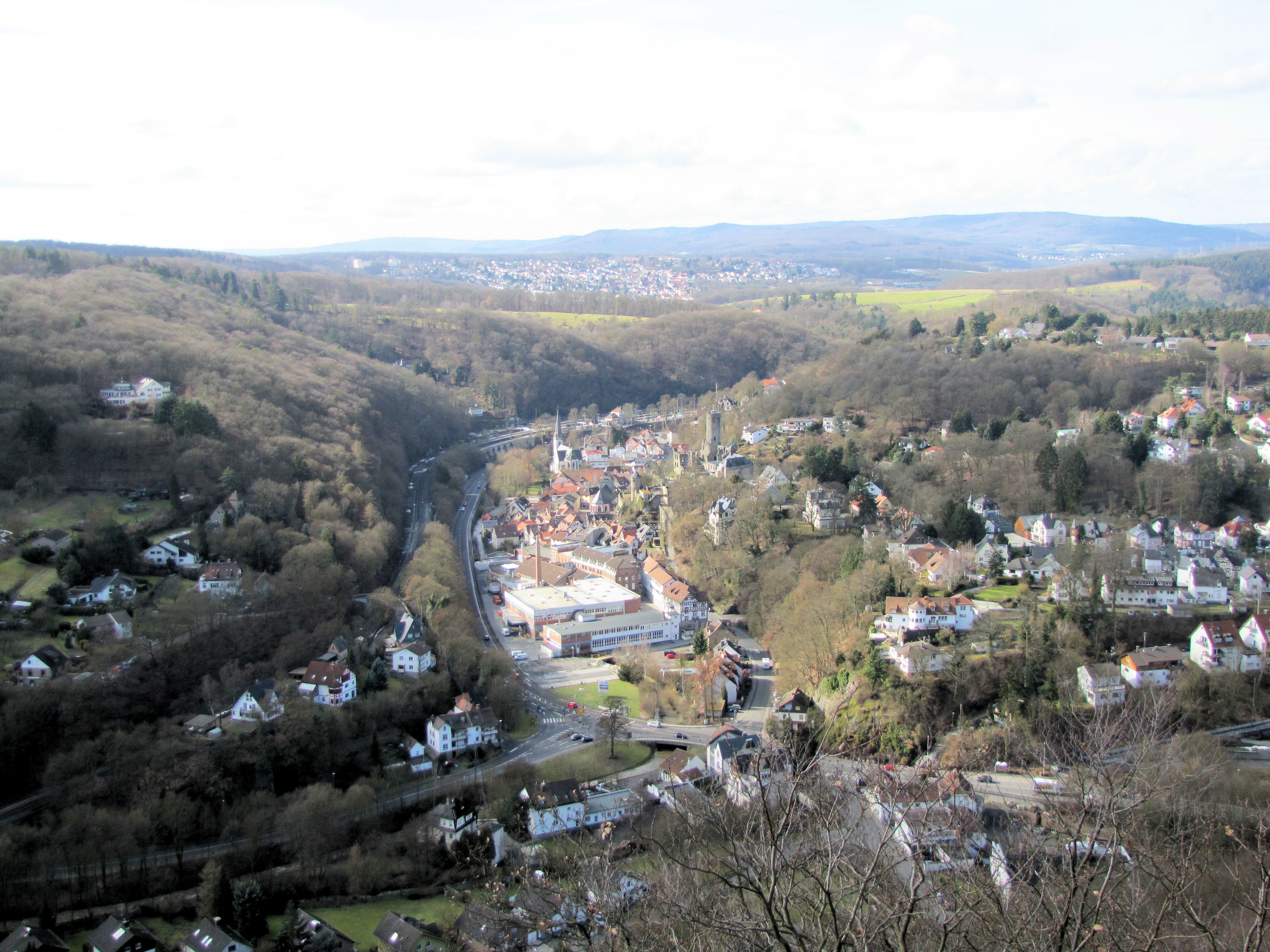 "Eppstein", town in the Main-Taunus-Kreis, Hesse, Germany